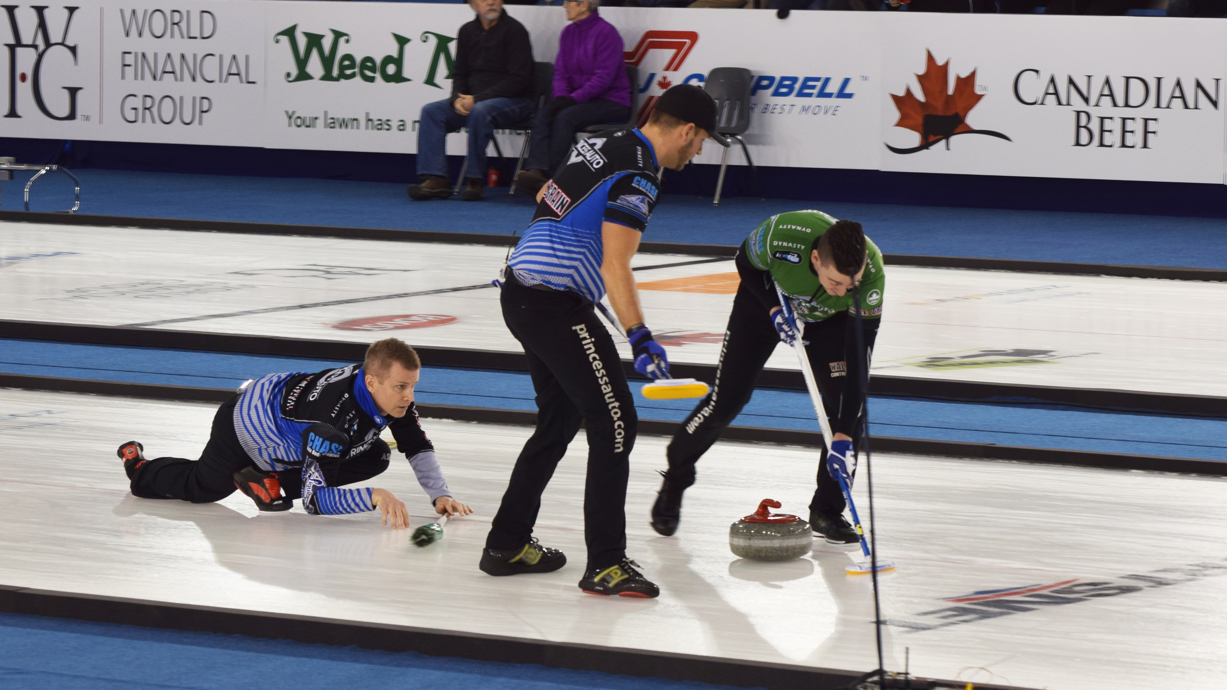 Stoughton throws his rock at the 2018 Elite 10 Grand Slam curling event in Winnipeg, Manitoba while Derek Samagalski and Colin Hodgson sweep.